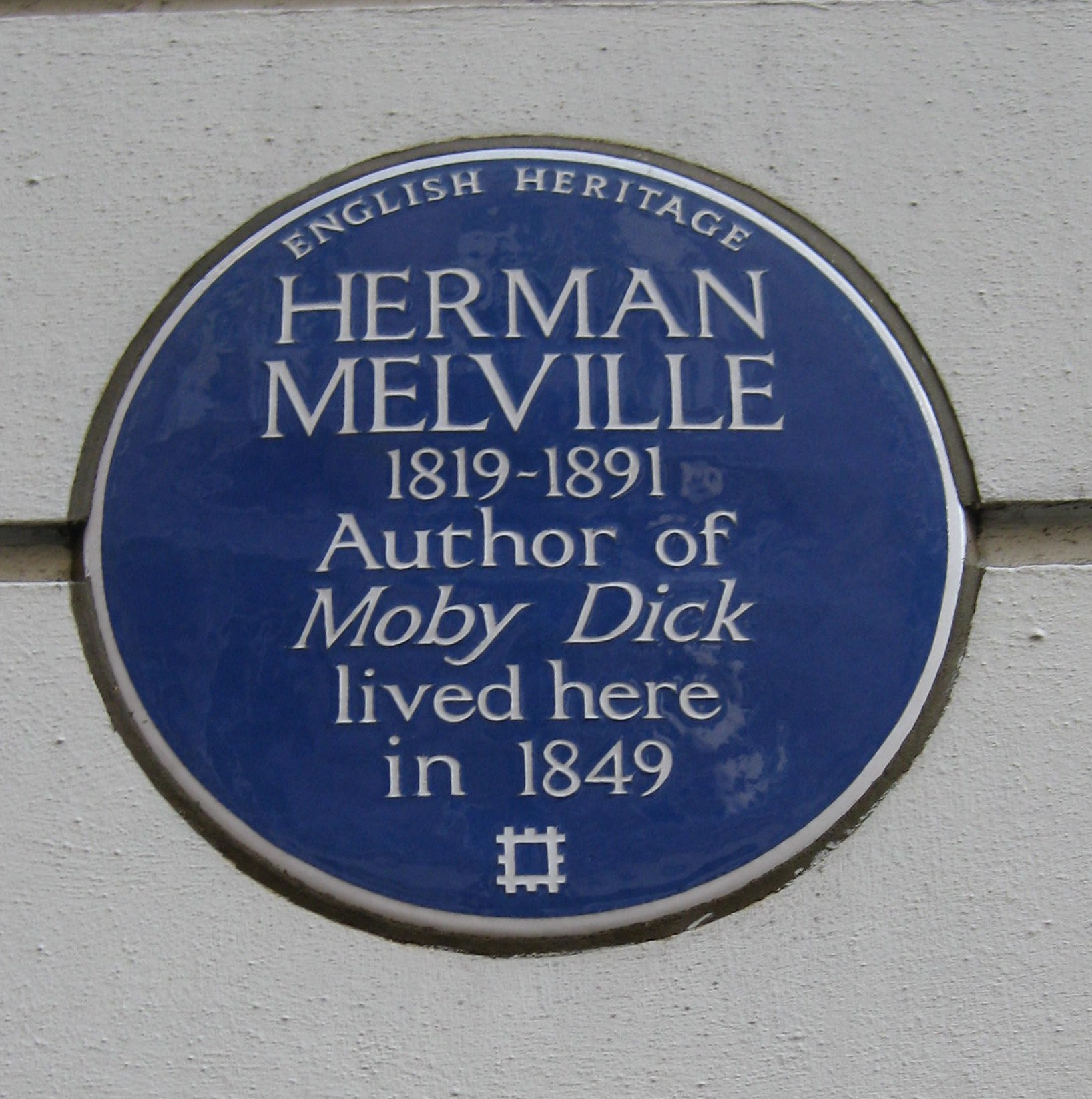 Plaque of the house in Craven Street where Melville stayed in 1849